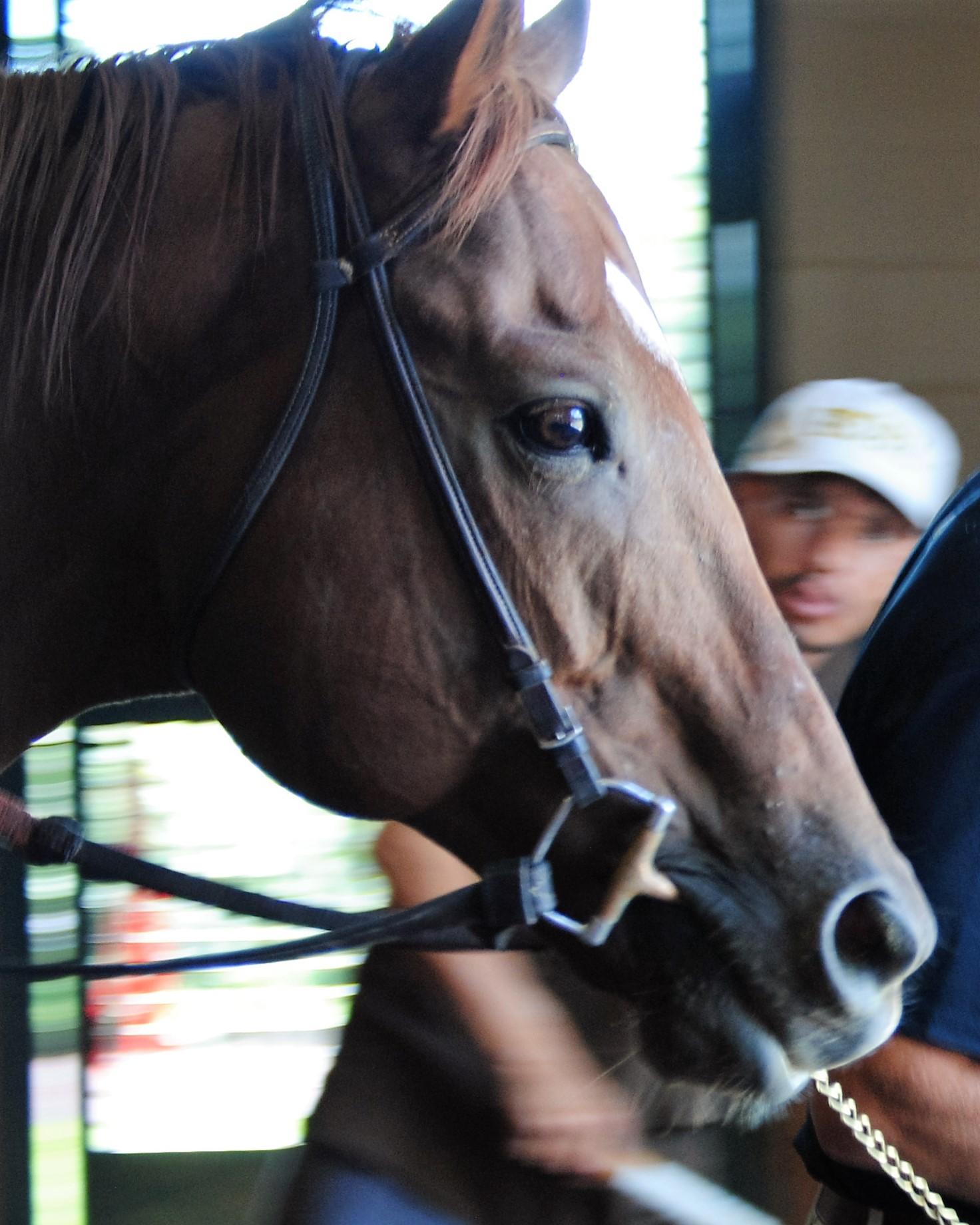 Speightstown being led out for exercise. Winstar works most stallions under tack to maintain their fitness levels